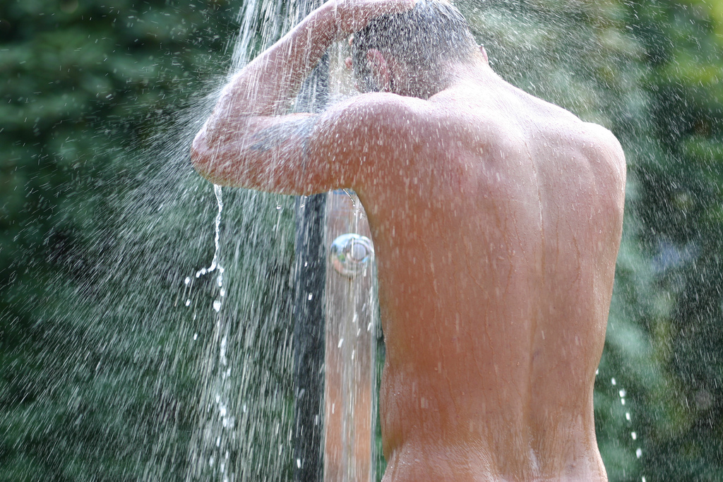 Guy under shower.